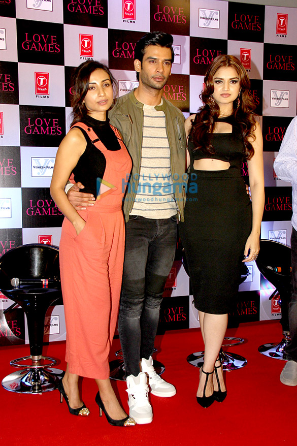 Gaurav Arora with Patralekha and Tara Alisha Berry at the press conference of Love Games film.